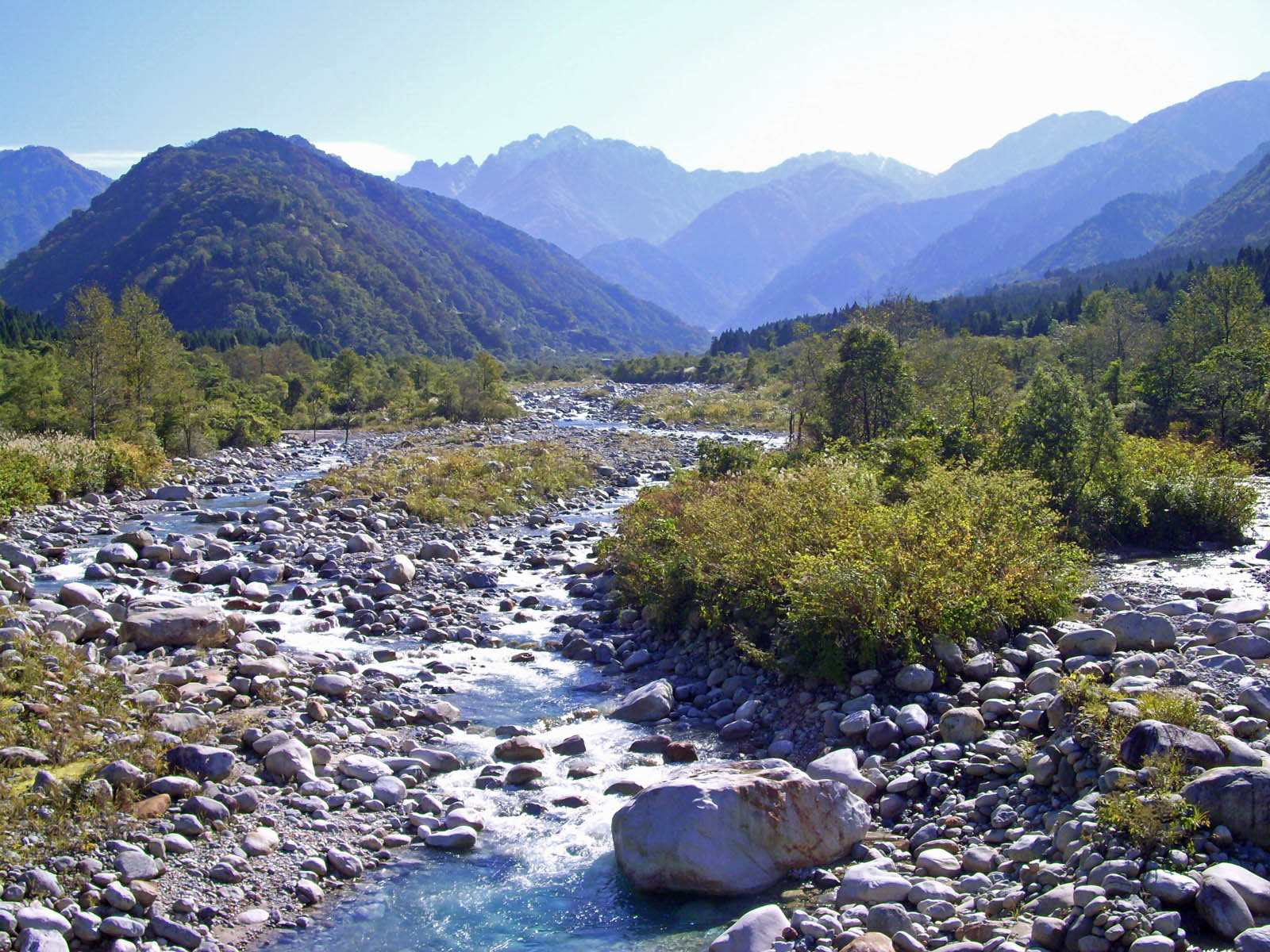 Hayatuki River from IoriBri